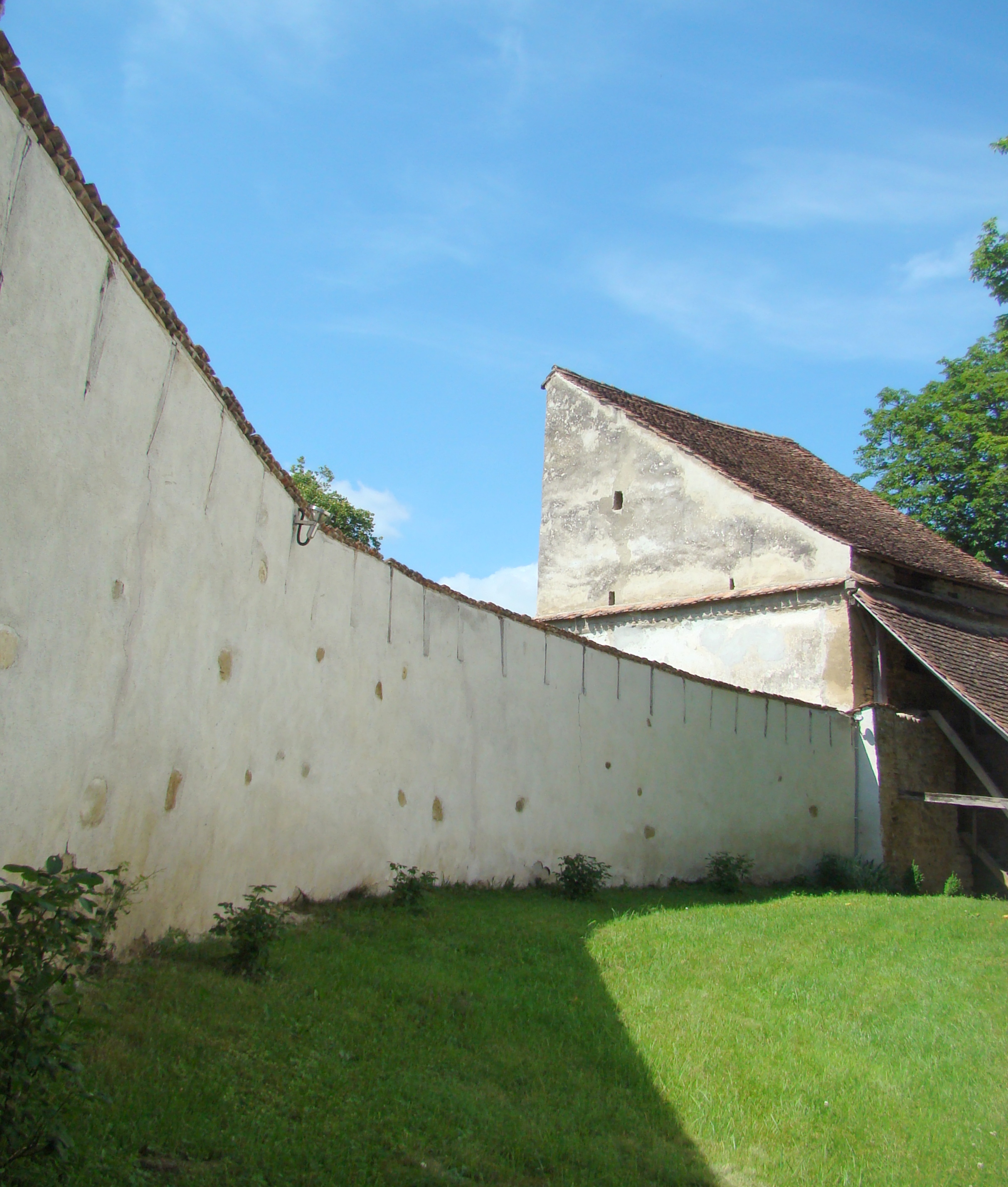 Fortified church in Bunești, Brașov County, Romania